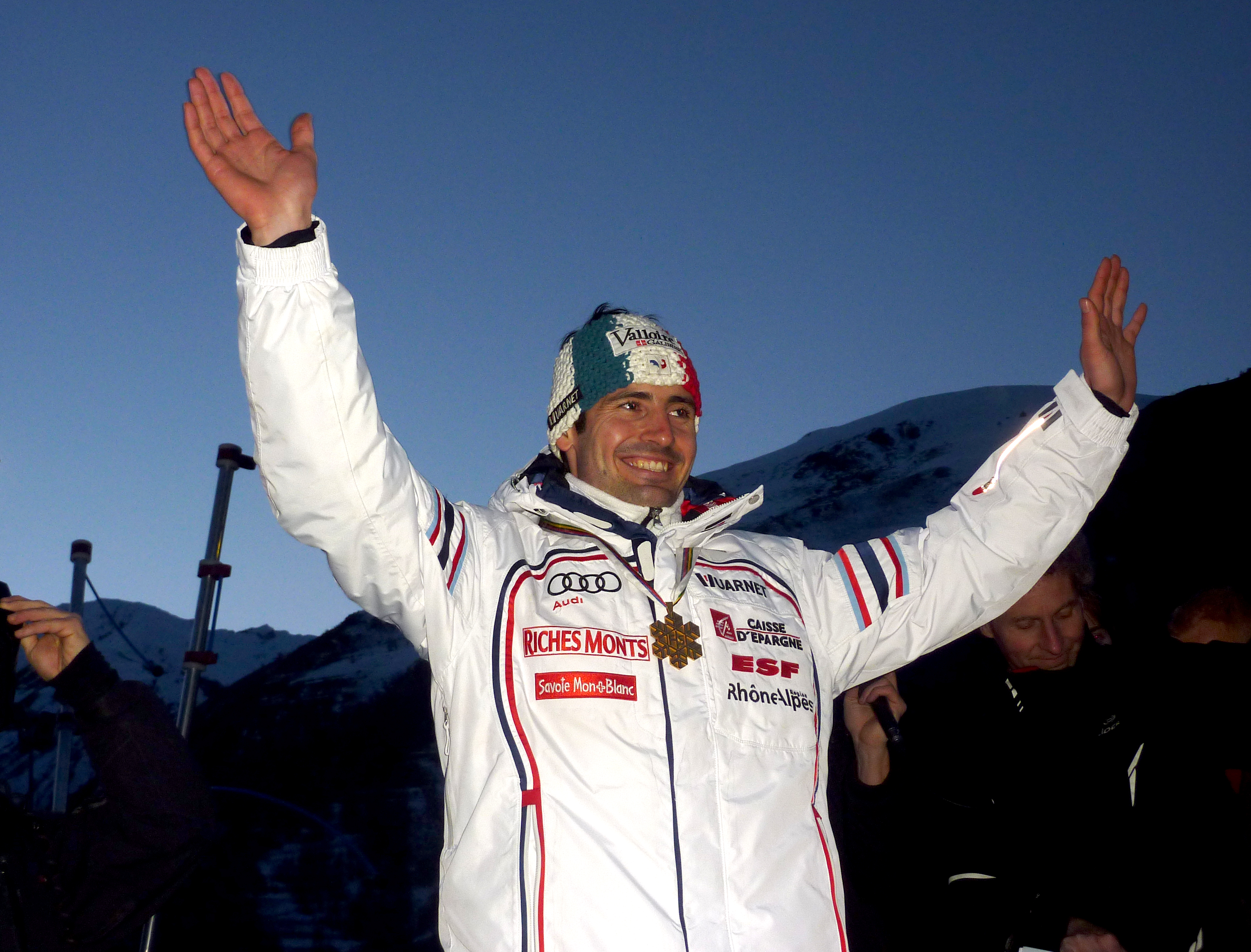 Jean-Baptiste Grange in his own ski-resort of Valloire, France, february 21st 2011, 24 hours after his victory in the world championships slalom at Garmisch-Partenkirchen.